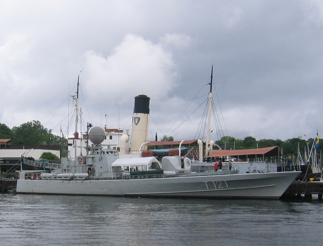 Photo by Jll. July 2005